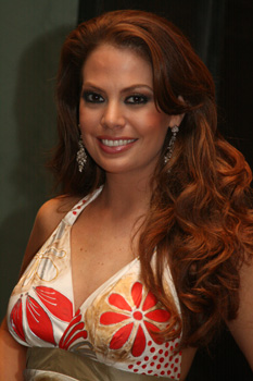 Miss Ecuador 2007 - Valeska Saab Gomez in Miss World 07, Sanya, China